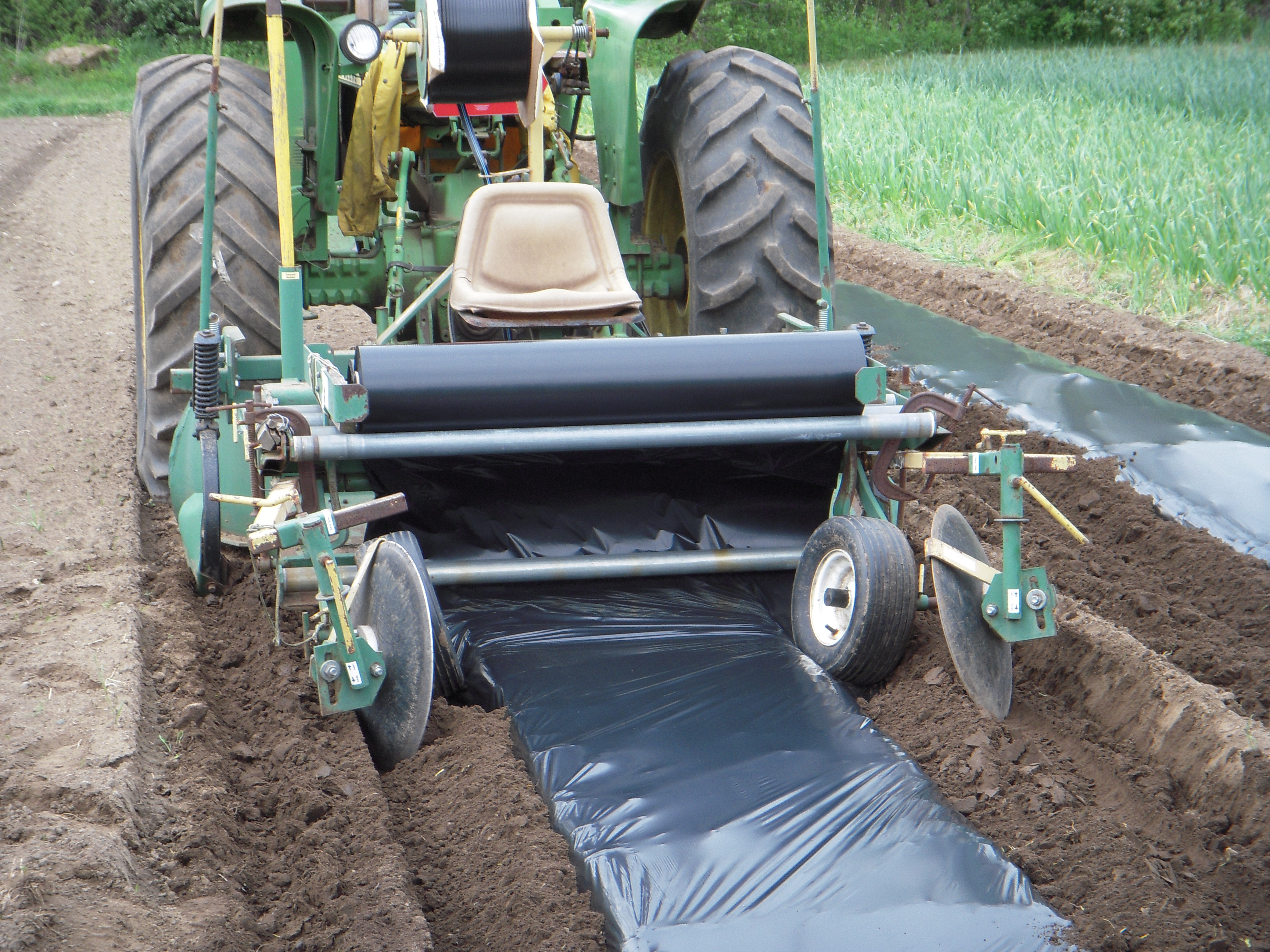 Plastic laying machine pulled by a John Deere tractor at a farm in Massachusetts, USA.